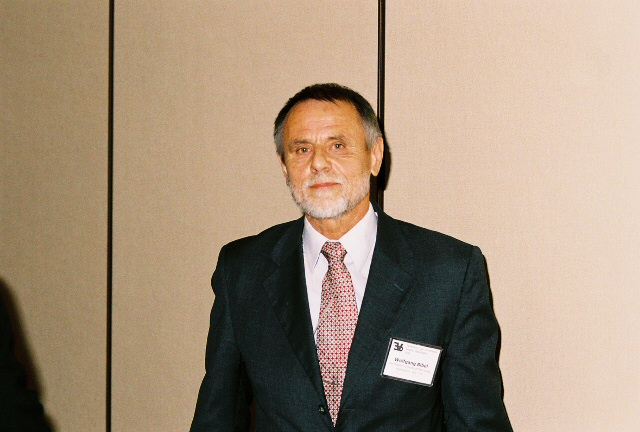 FLoC 2006: Wolfgang Bibel